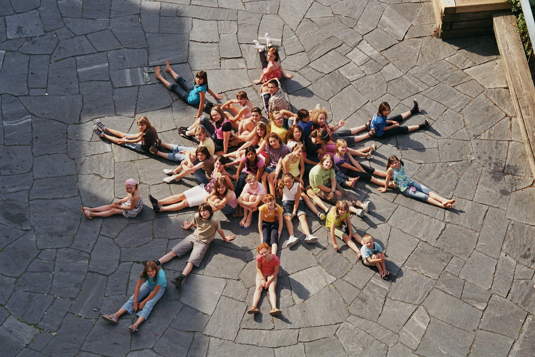 All the kids of the choir in july 2008 during they form a sun.